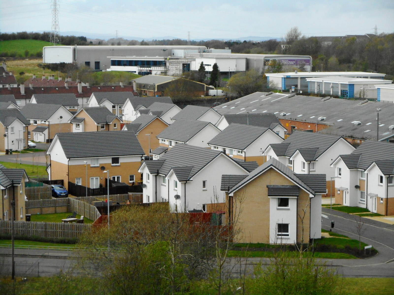 Recent housing, South Nitshill